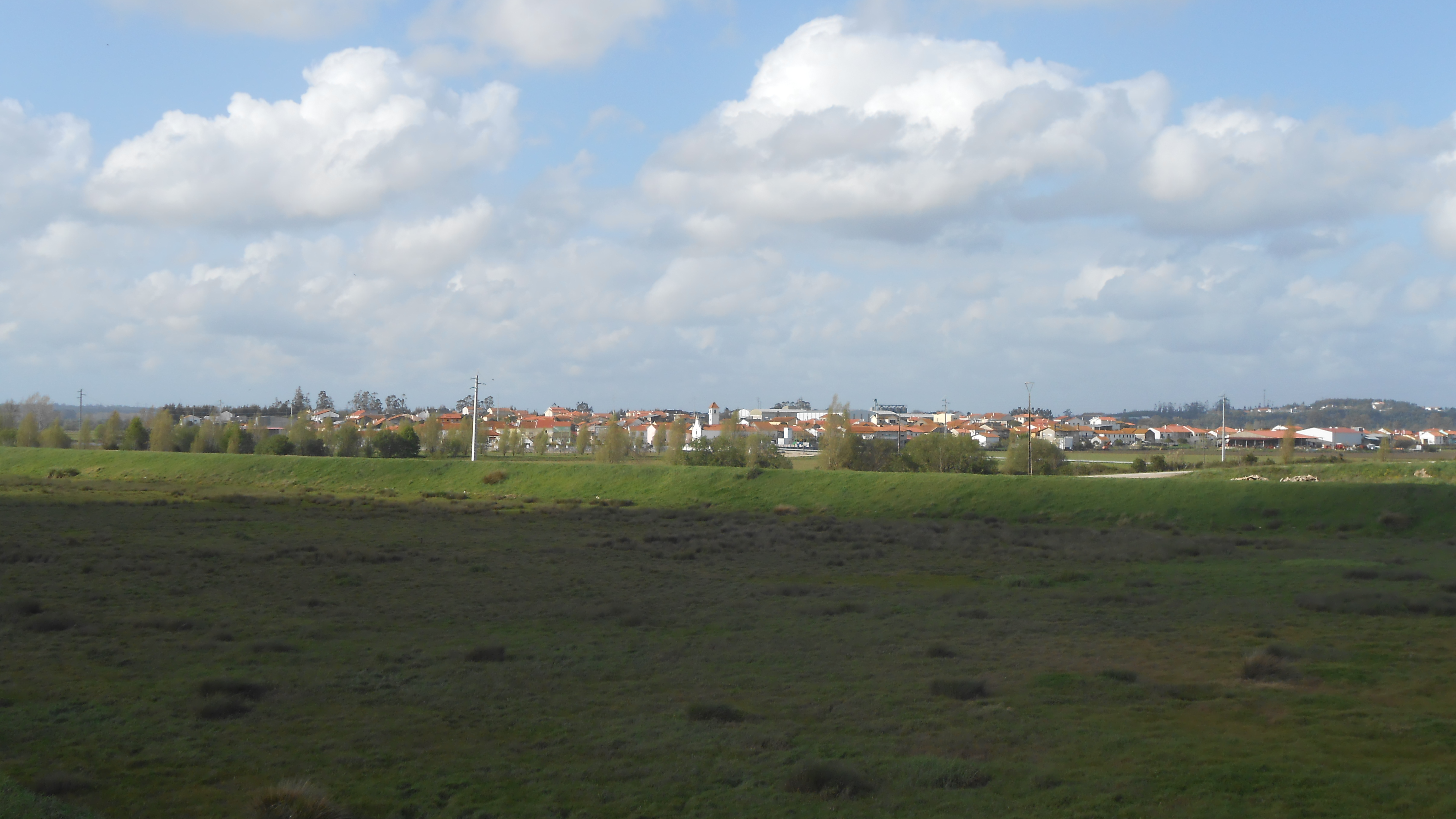 General View (from the Mondego-Bridge)